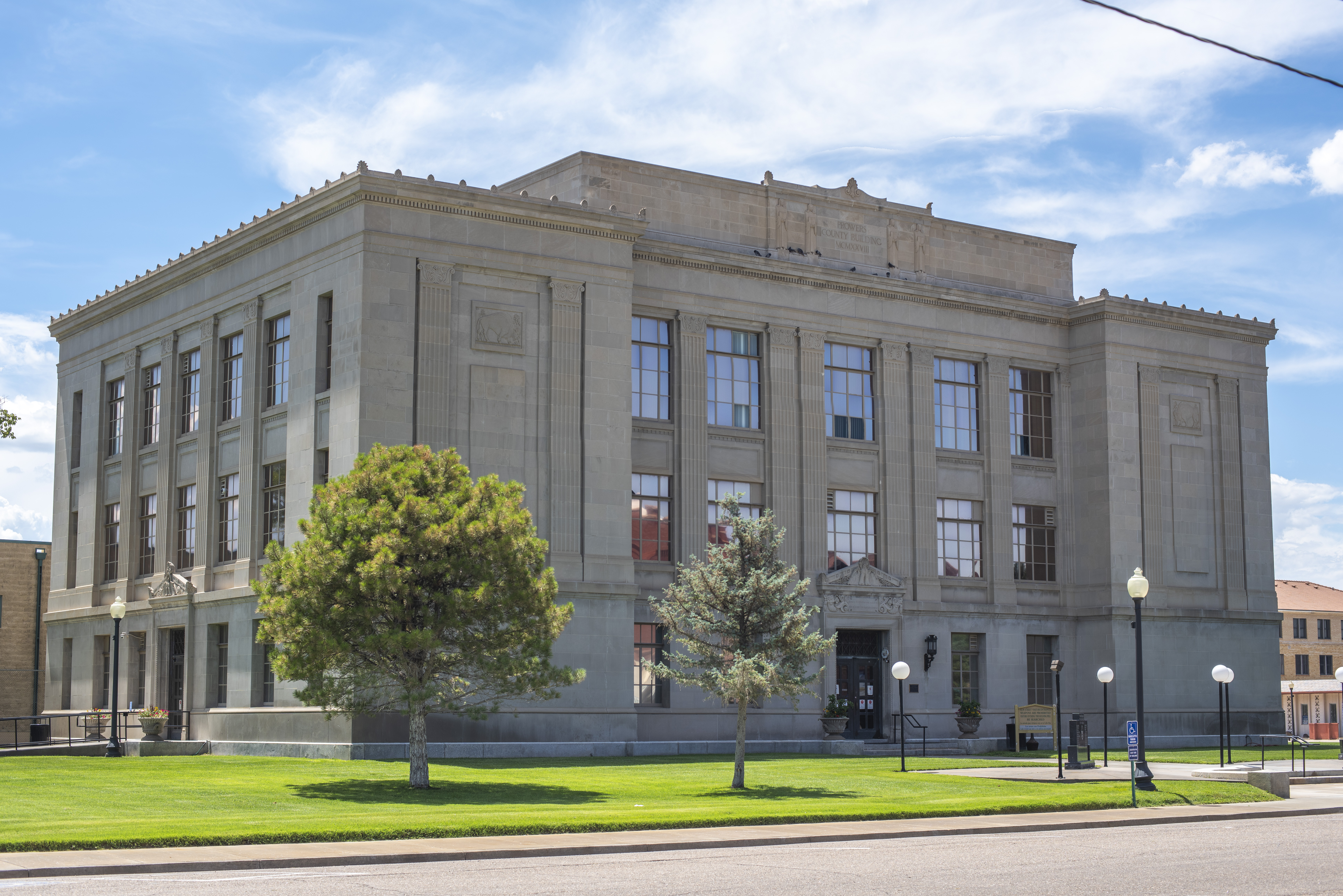 Photograph of the Prowers County Courthouse in Lamar, Colorado. Image taken in July 2020.